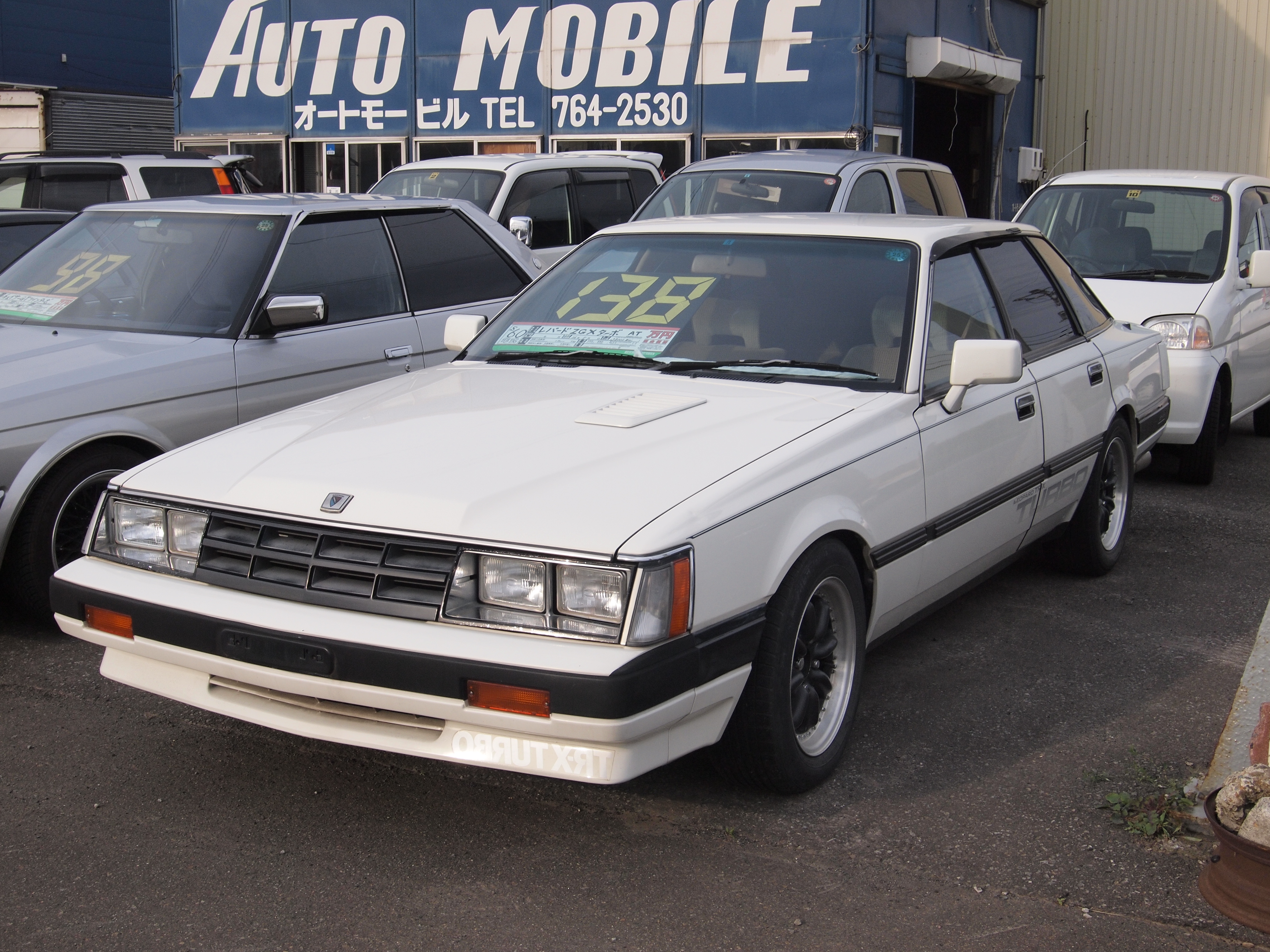 Nissan Leopard TR-X Front